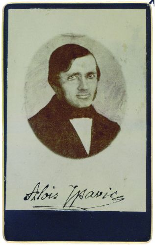 Alojz Ipavec (1815-1849), Slovene composer and physician.